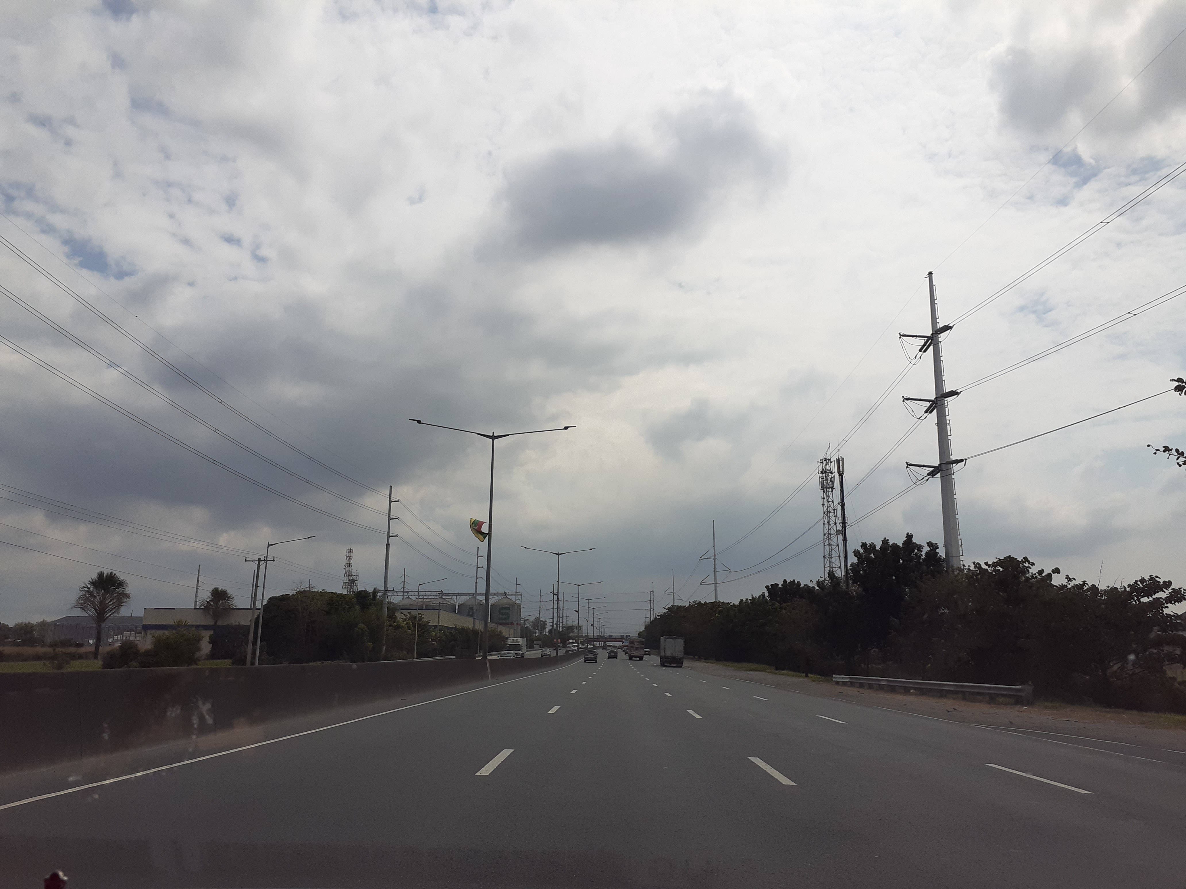 North Luzon Expressway. Southbound near Brgy. Duhat, Bocaue.